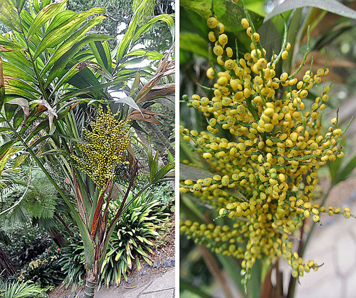 A Parlor Palm native to Mexico and Guatemala. Known as Neanthe Bella Palm in English and as Palmera del Salon locally. Lotusland, Montecito, California.